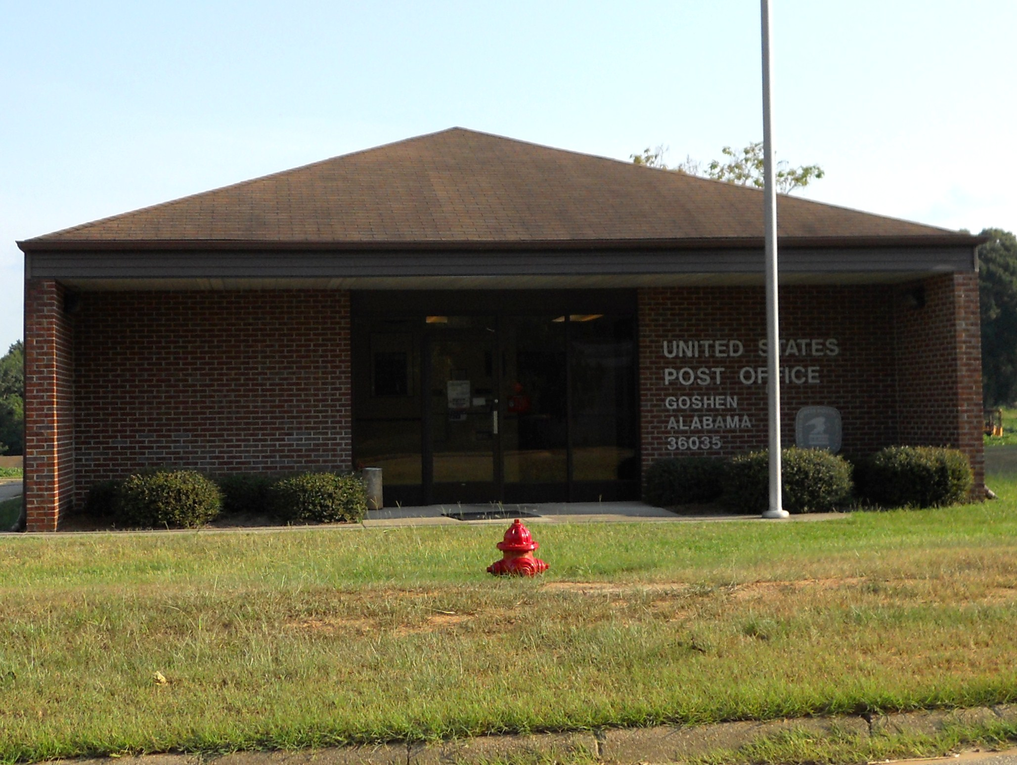 This is a photograph of the post office in Goshen, Alabama.